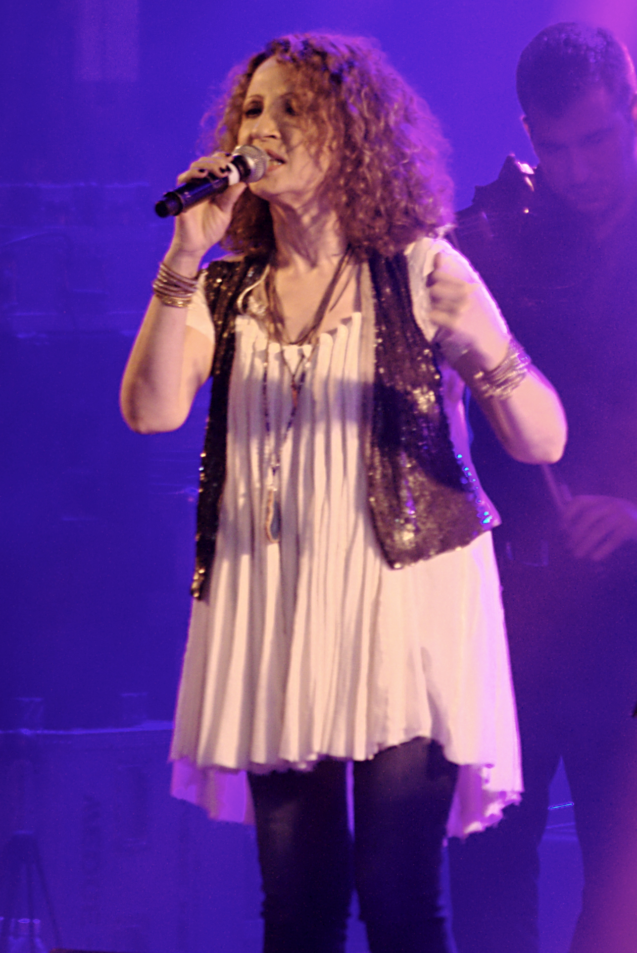 Glykeria.